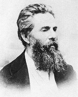 Photo of Herman Melville